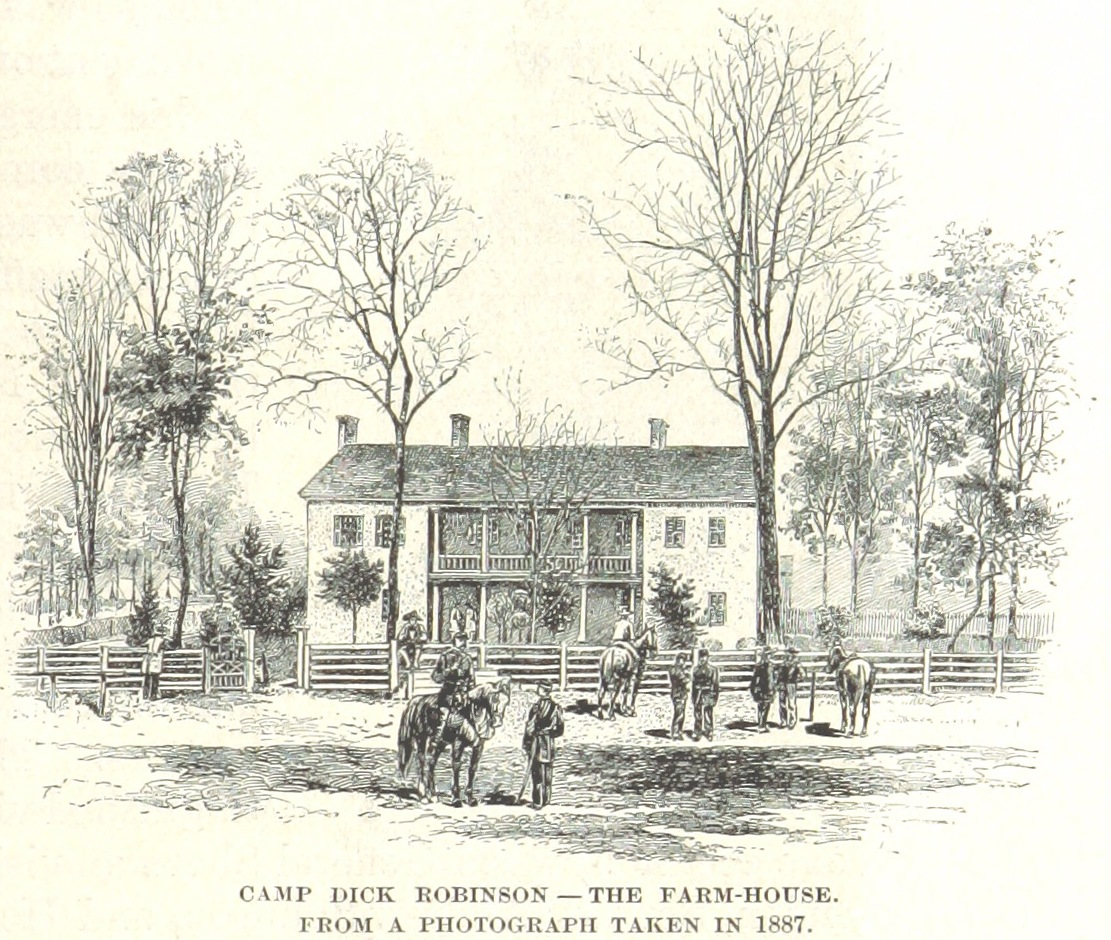 Camp Dick Robinson, first Union camp south of the Ohio River, and former NRHP site.